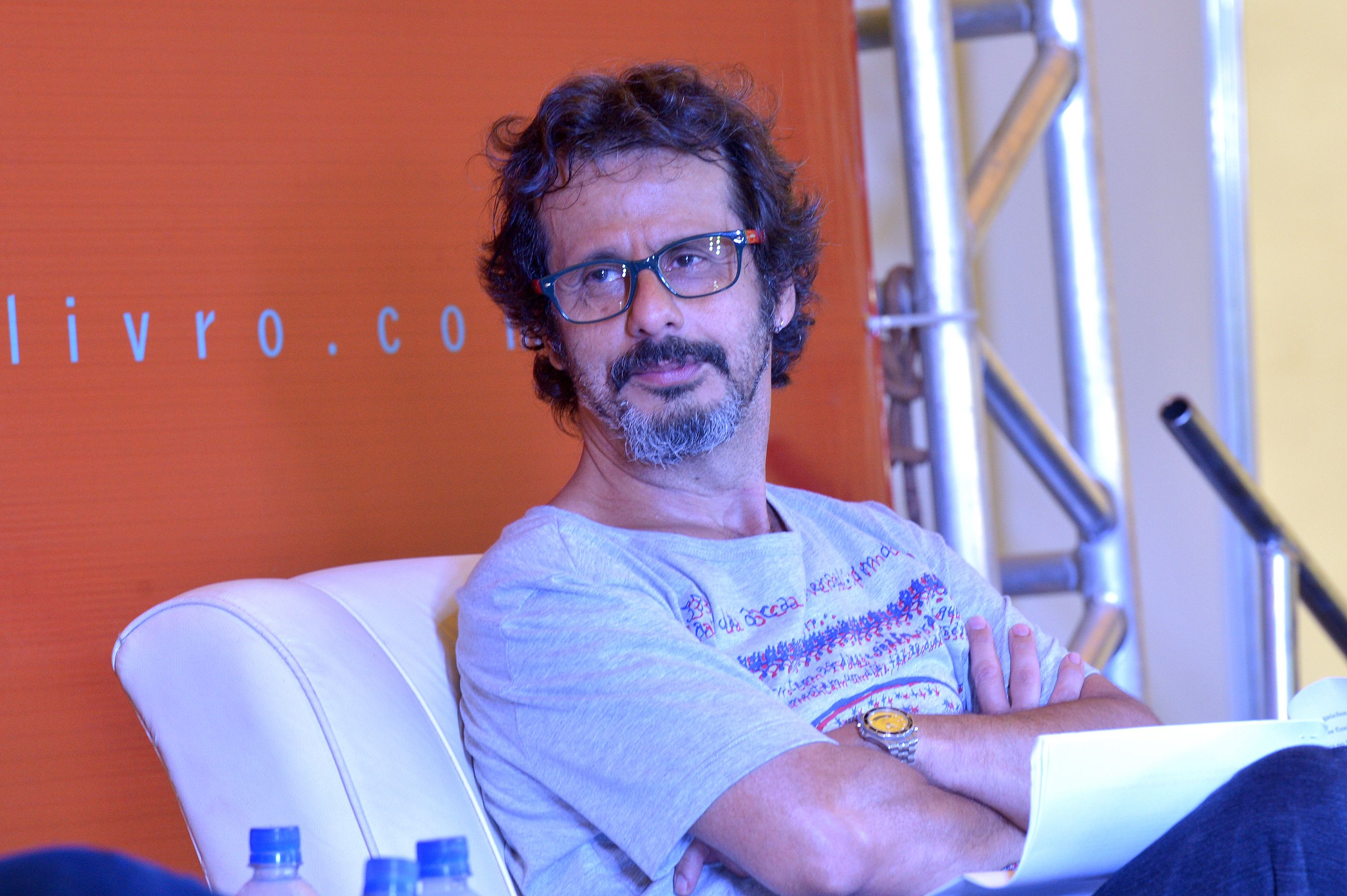 Brazilian writer José Rezende. Photo by Agência Brasil published under a CC-BY-2.0 license